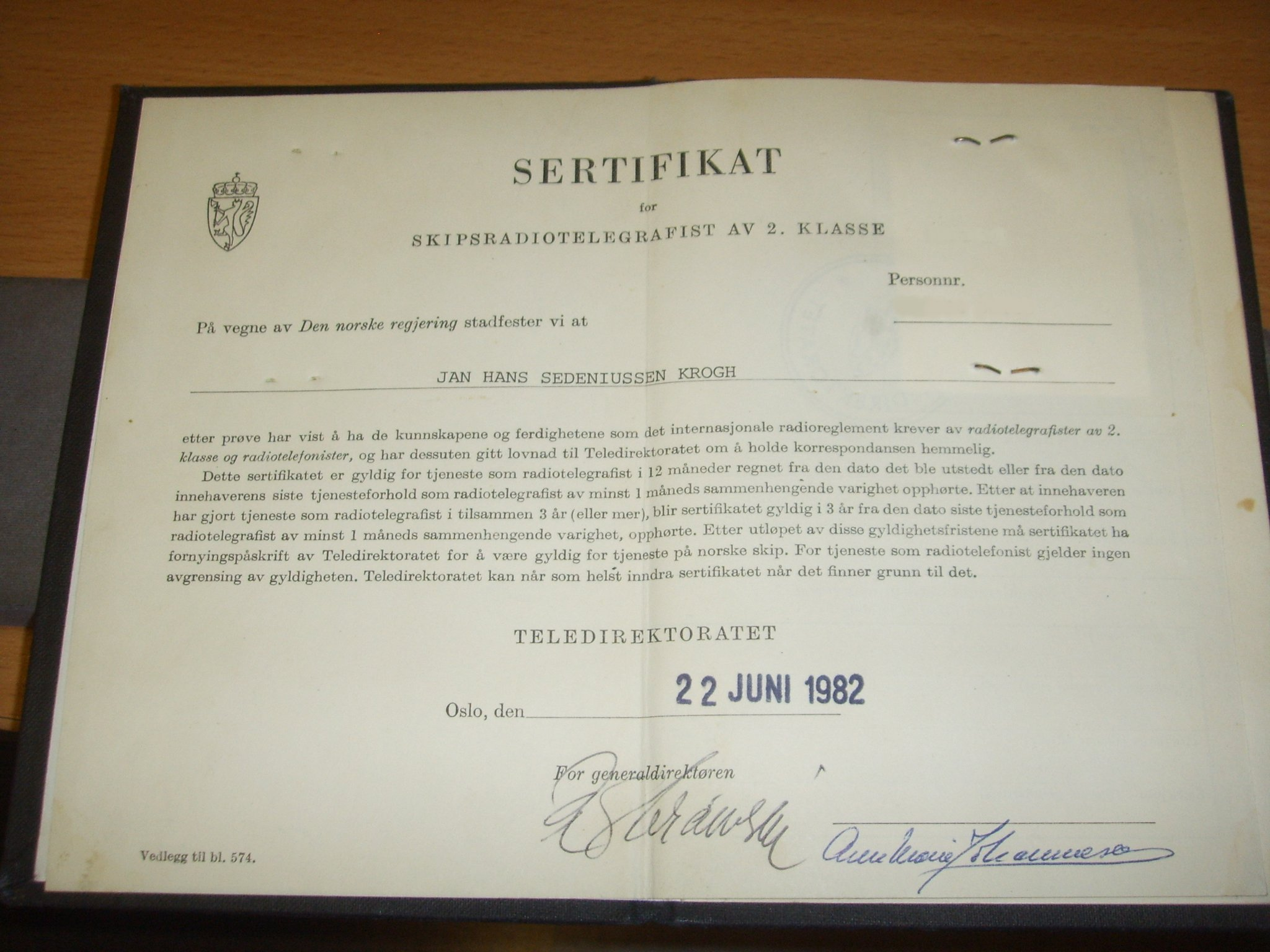 Main page of a Norwegian Second Class Radiotelegraph Operator's Certificate and Radiotelephone Operator's Certificate, issued 1982.